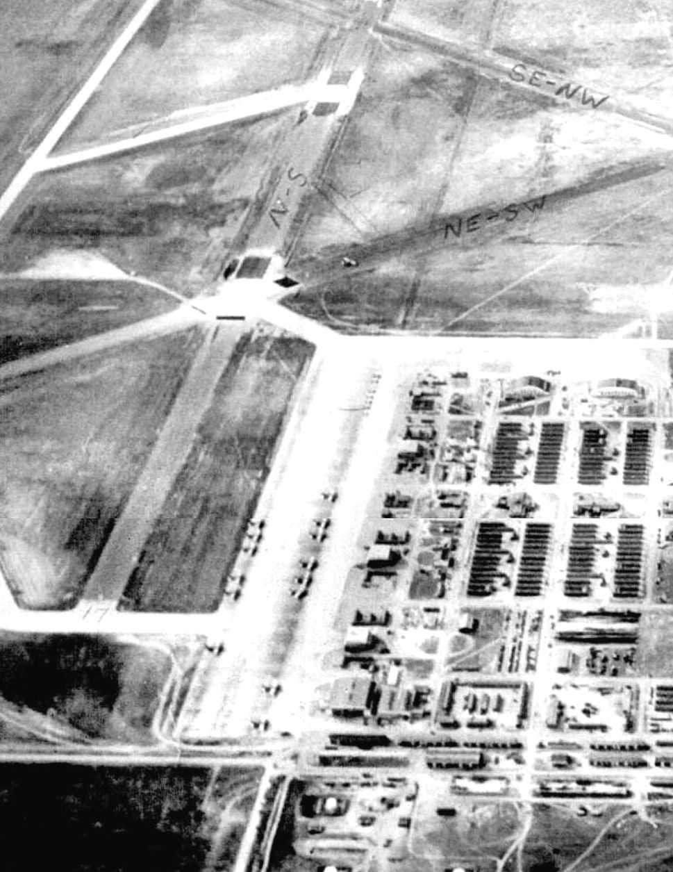 Parking ramp and station area of Dalhart Army Airfield, 1944